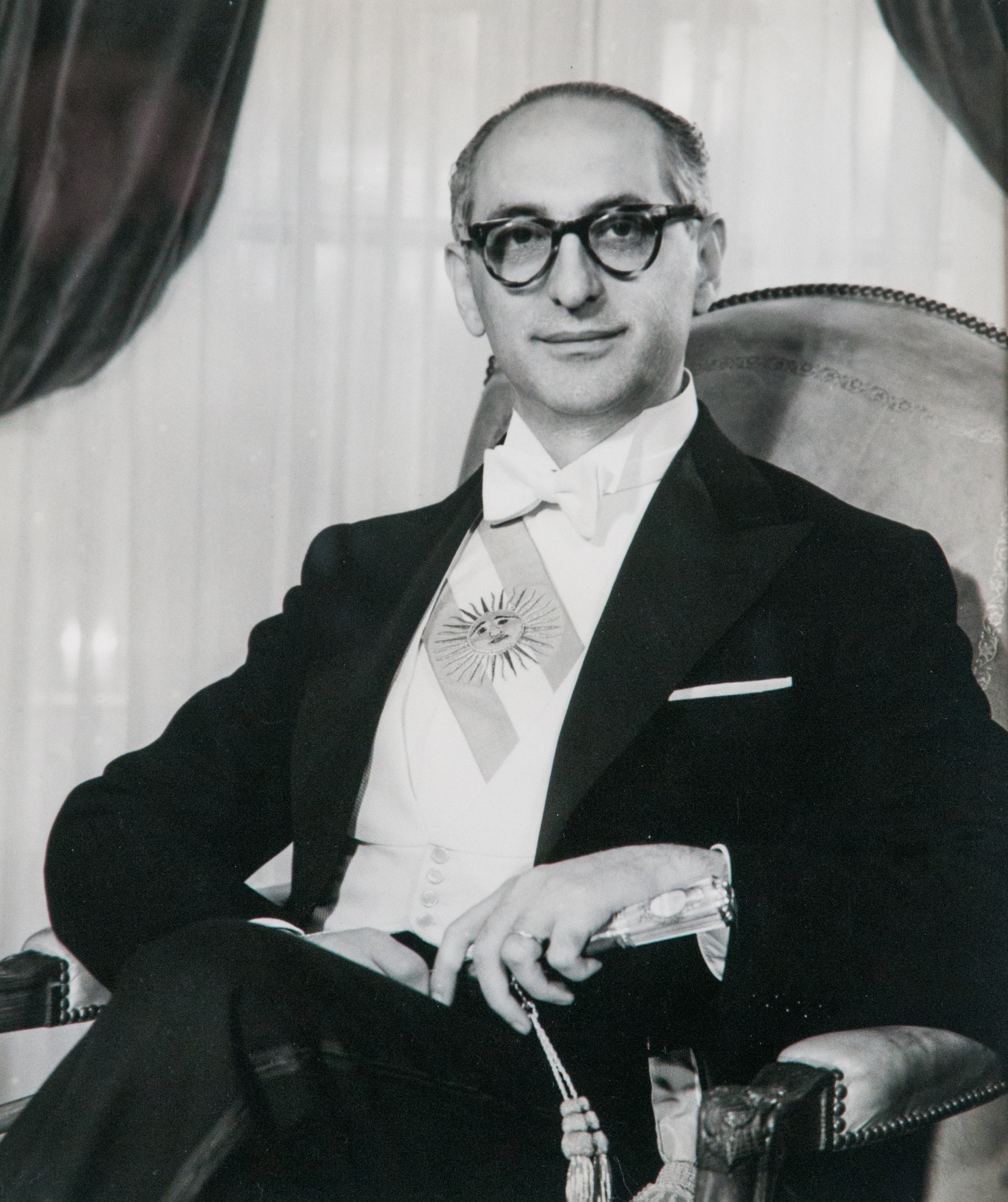 Official photo of former President of Argentina, Arturo Frondizi using the presidential sash. Image currently owned by the Archivo Gráfico de la Nación Argentina.